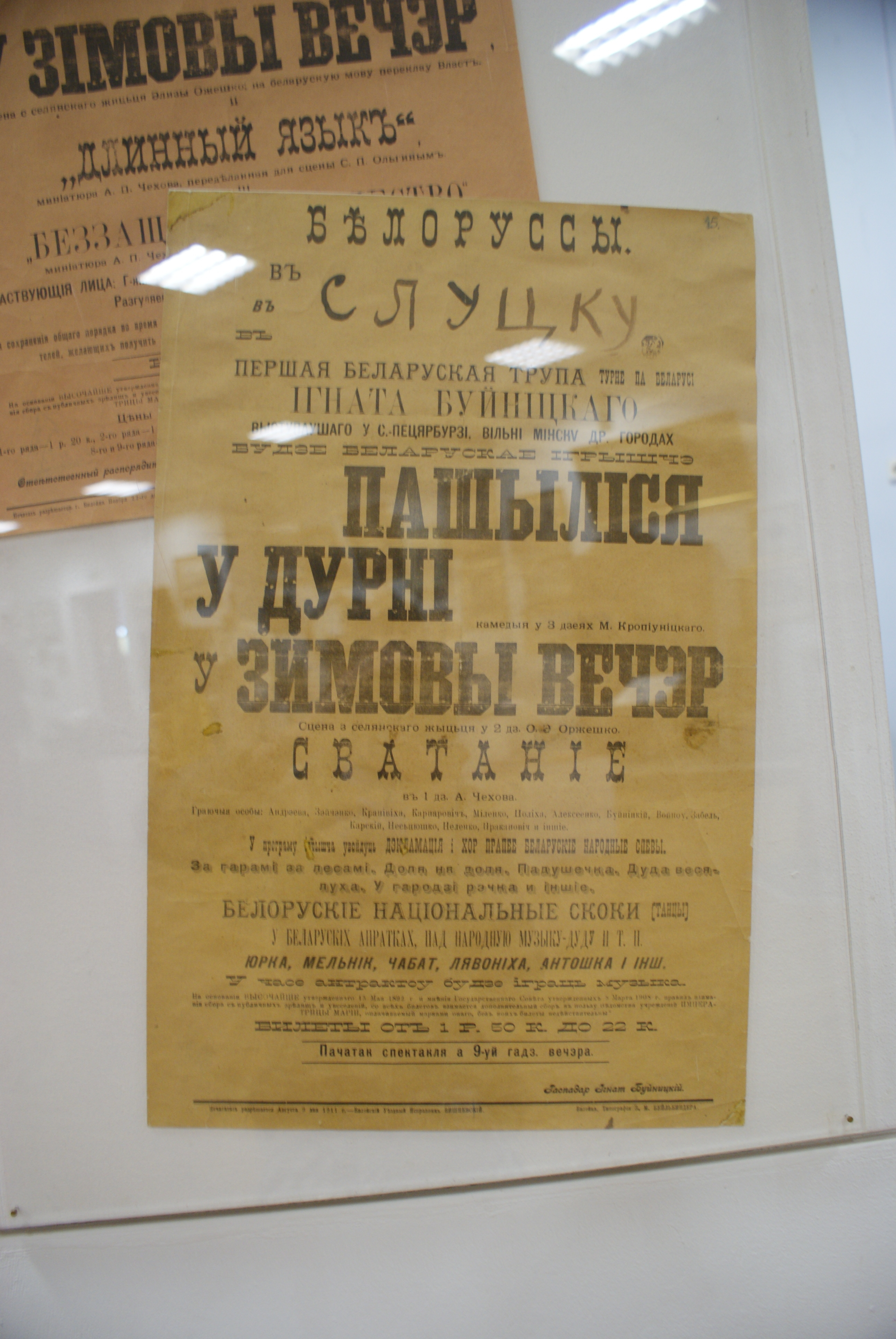 Playbill Troupe Buynitsky